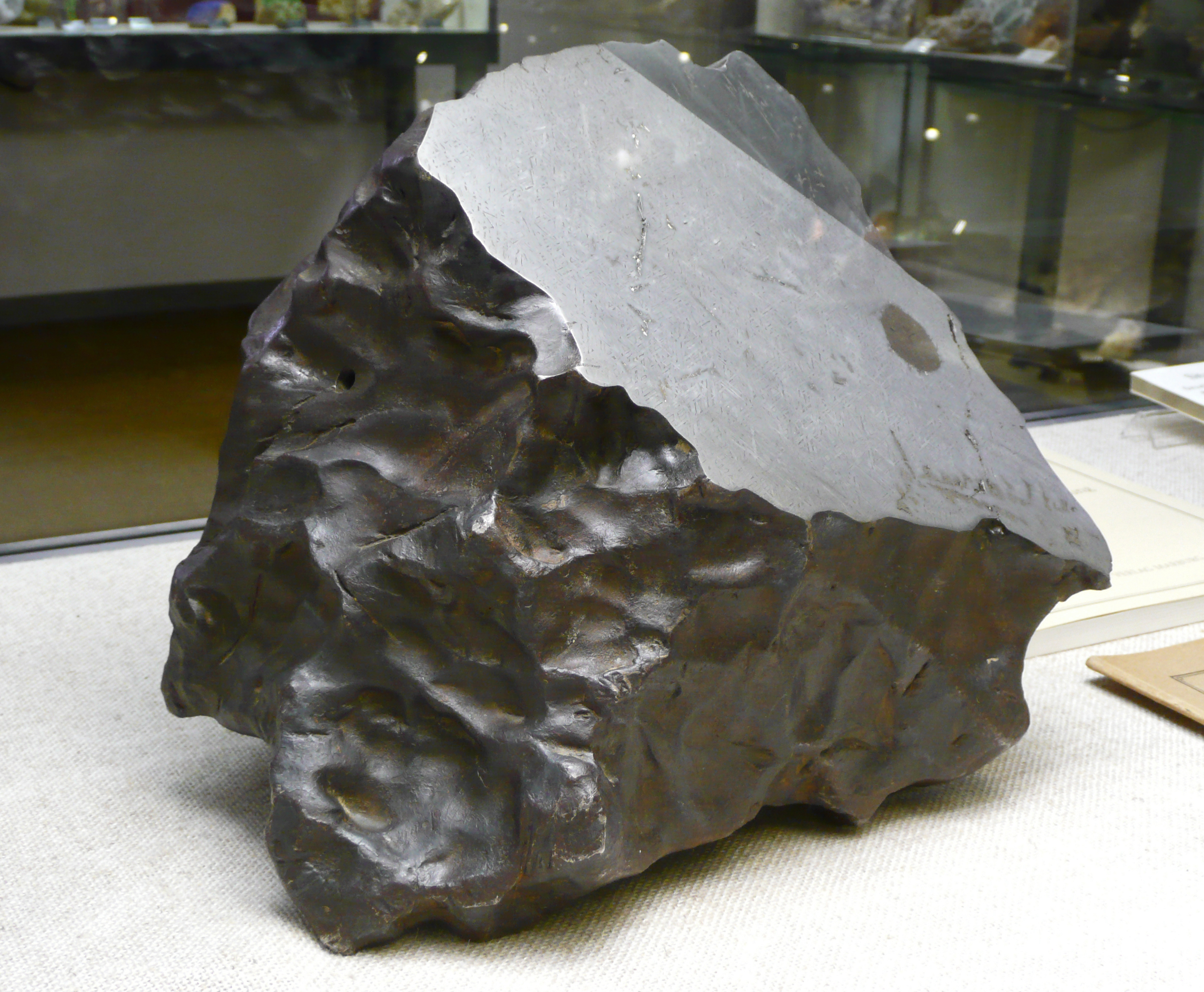 Meteorite of Treysa (mainpart) in the Mineralogisches Museum in Marburg fallen on April 3, 1916 into a forest near Rommershausen near Treysa in Hesse, Germany. Iron meteorite of iron-nickel (Mean Oktaedrit, group III B-ANOM), Weight after finding 63.3 kg, depth of impression: 1.6 m, crater ca. 1.5 x 1 m.